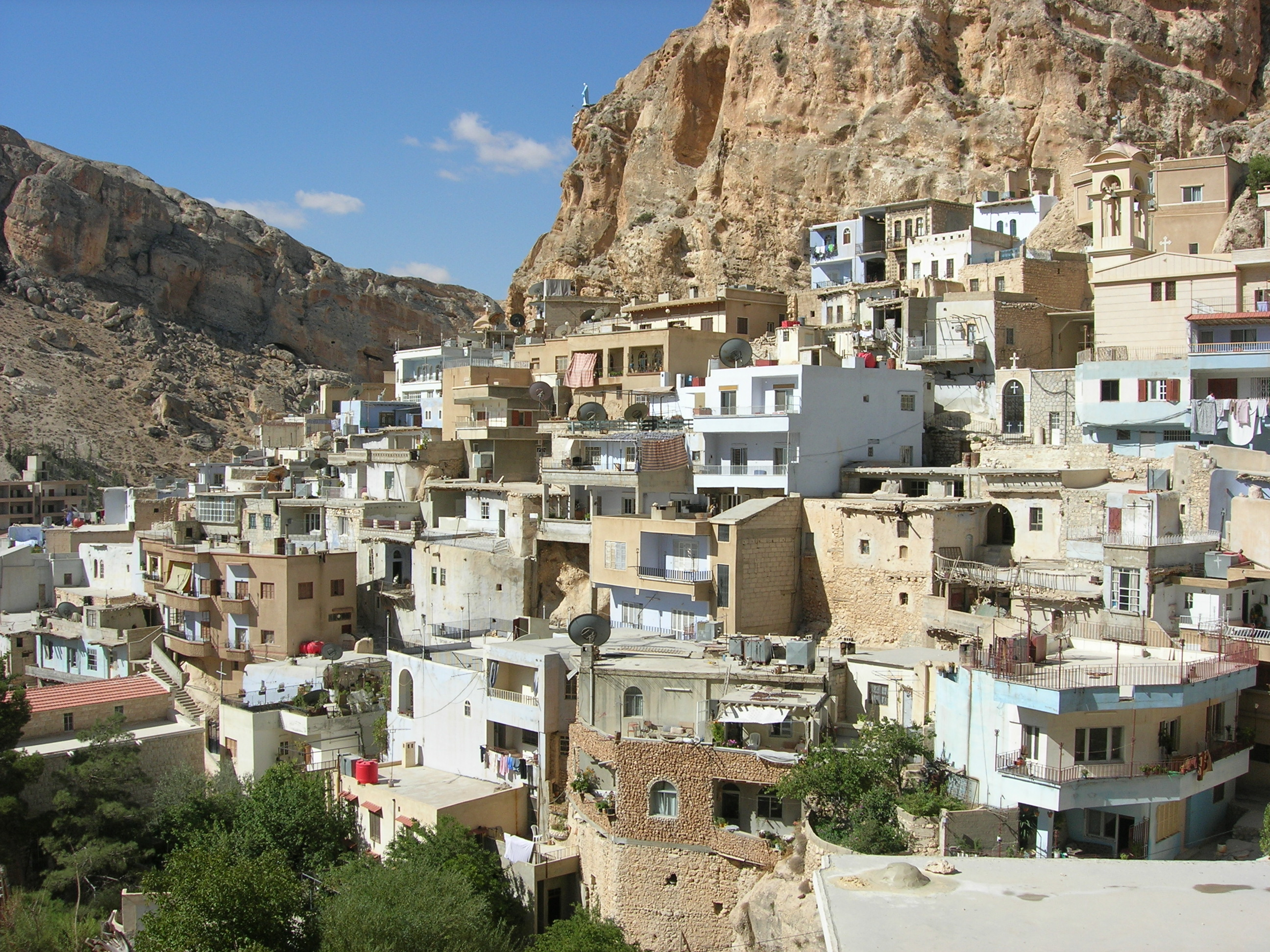 Buildings in Maloula